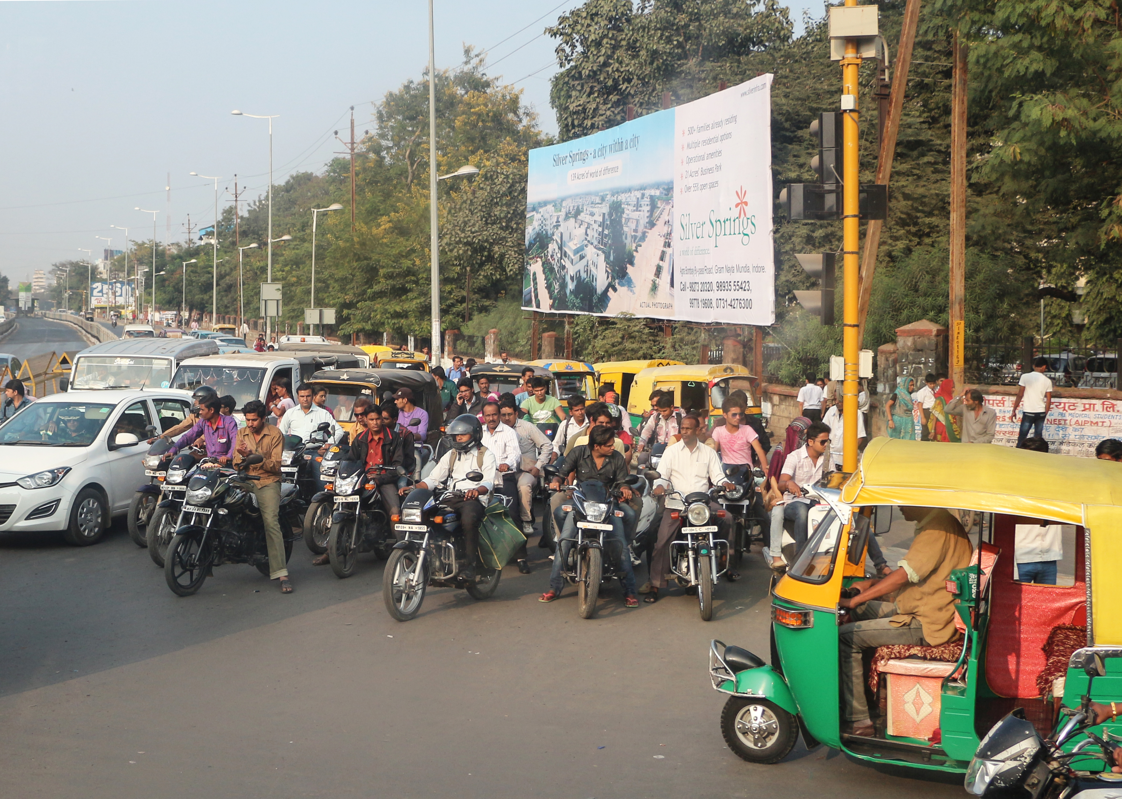 Motorcyles in Indore, India